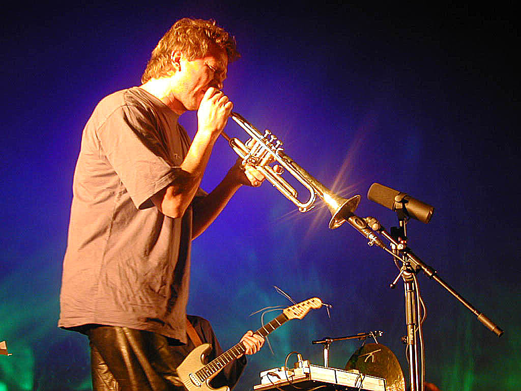 Nils Petter Molvær, playing his trumpet at Global Tempera 2001, in the old Fokus Kino cinema building in Tromsø, Norway. Photo: Krister Brandser